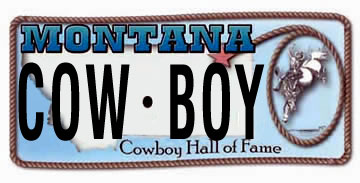 A self-made mockup of a personalized specialty license plate used as a fund raiser for the Montana Cowboy Hall of Fame.